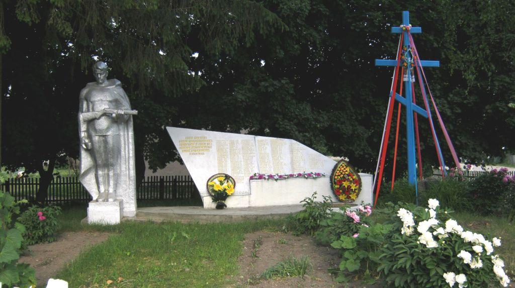 Monument to fallen soldiers